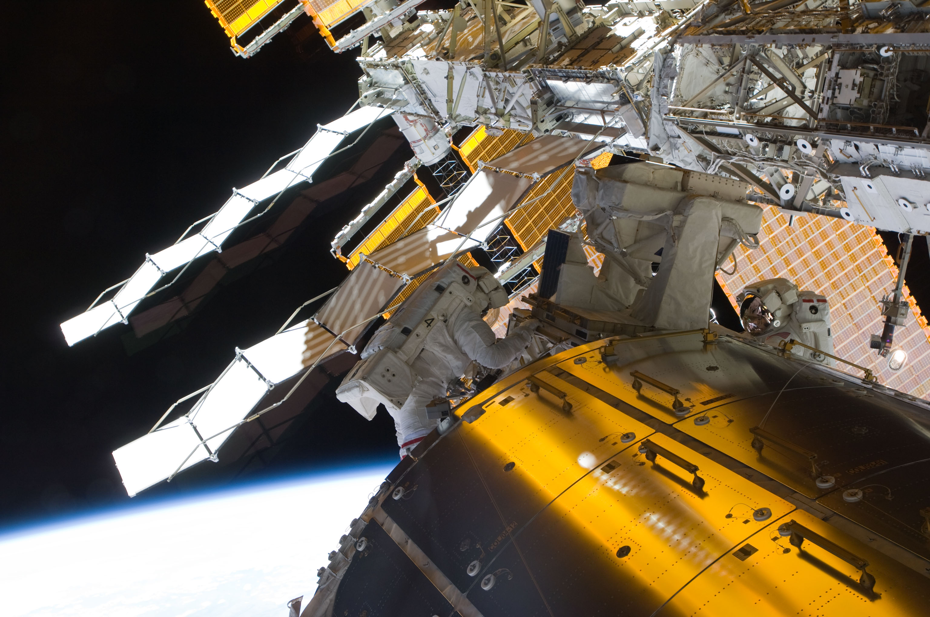 As part the STS-128 mission's first space-walk, astronauts Danny Olivas and Nicole Stott (right) removed an empty ammonia tank from the station's truss and temporarily stowed it on the station's robotic arm. Olivas and Stott also retrieved the European Technology Exposure Facility (EuTEF) and Materials International Space Station Experiment (MISSE) from the Columbus laboratory module and installed them on Discovery’s payload bay for return.